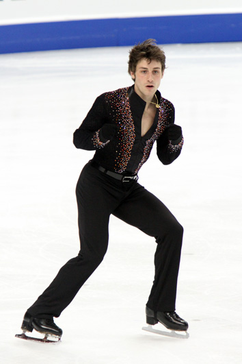 Brian Joubert at the 2010 World Championships (SP).